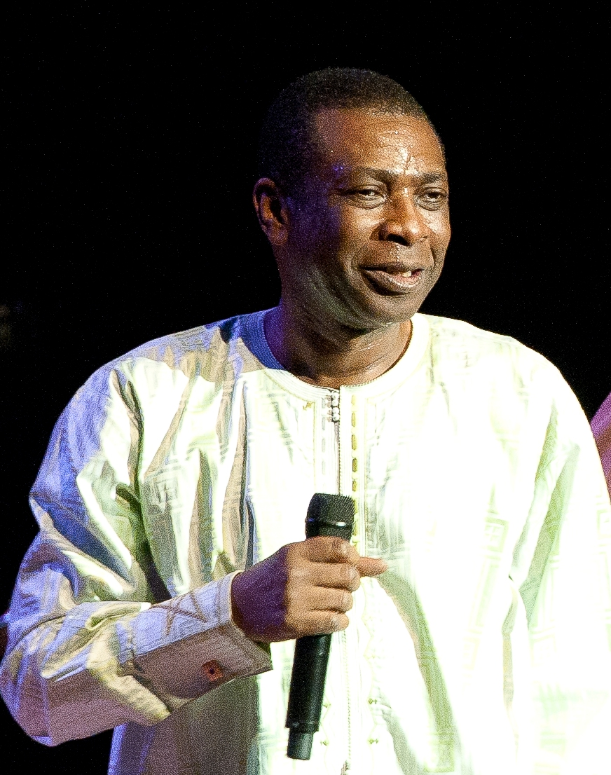 Youssou N'Dour at the Bozar-Brussels (B)